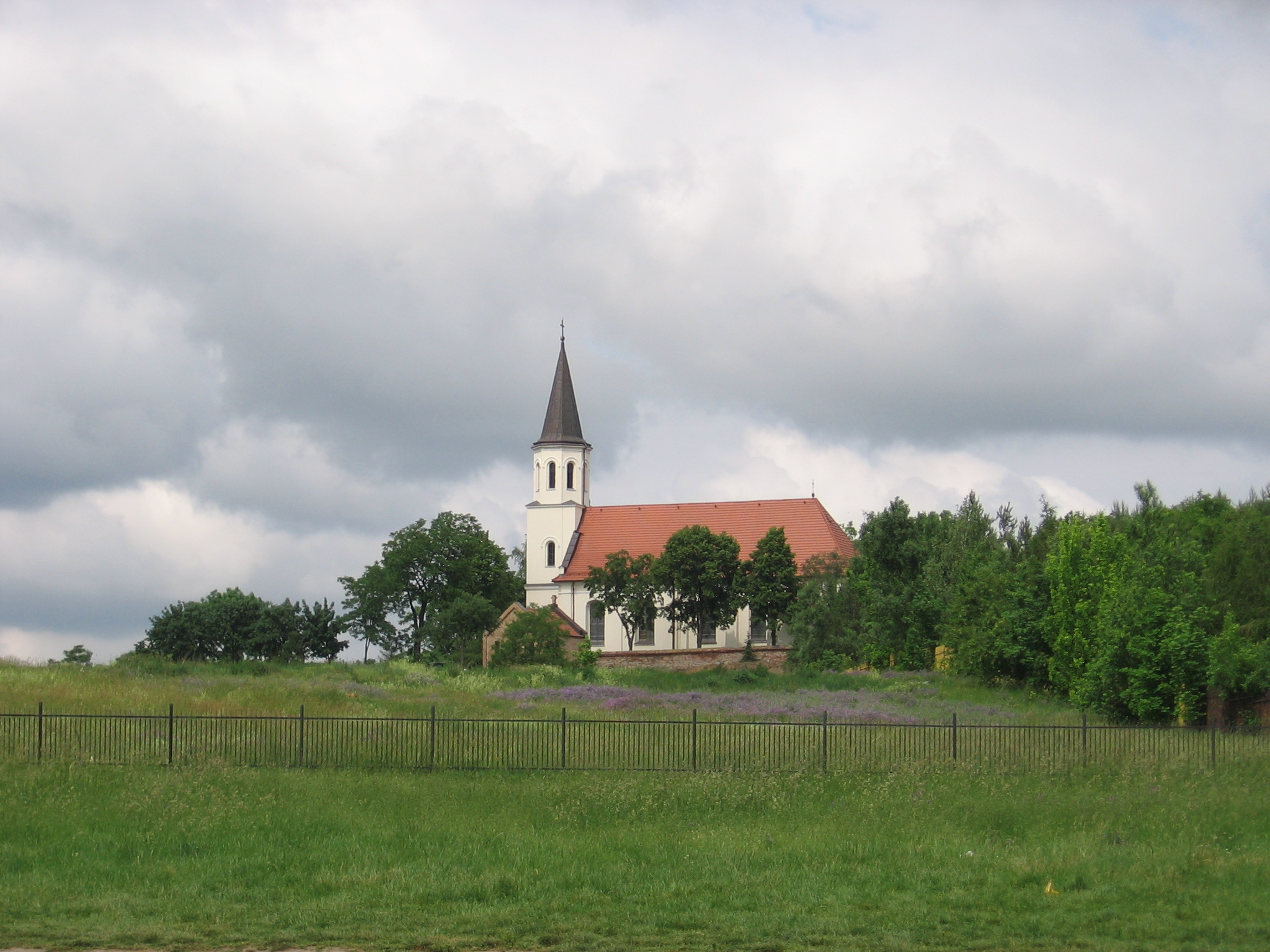 Church in Poznań-Kiekrz, photo taken June 2, 2007.